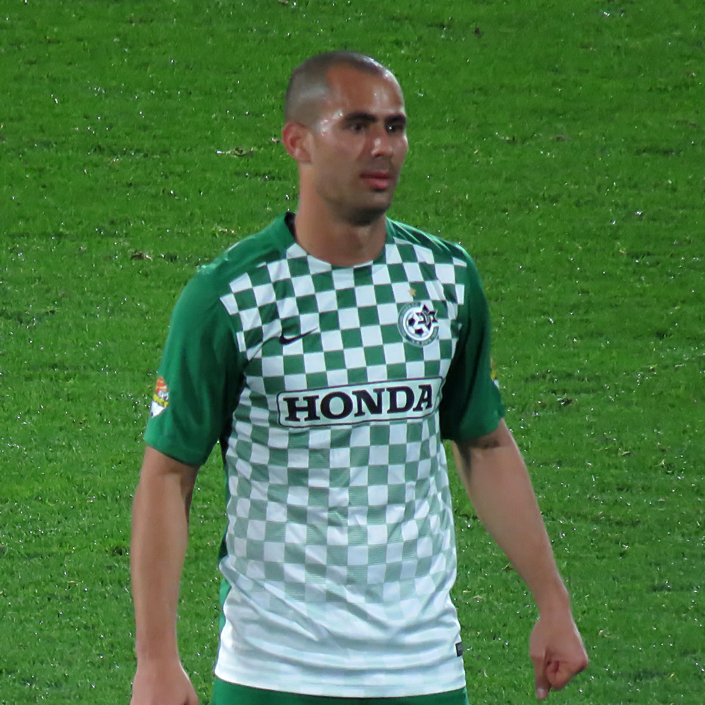 Bnei Yehuda Tel Aviv vs. Maccabi Haifa F.C., 9 Februar, 2016